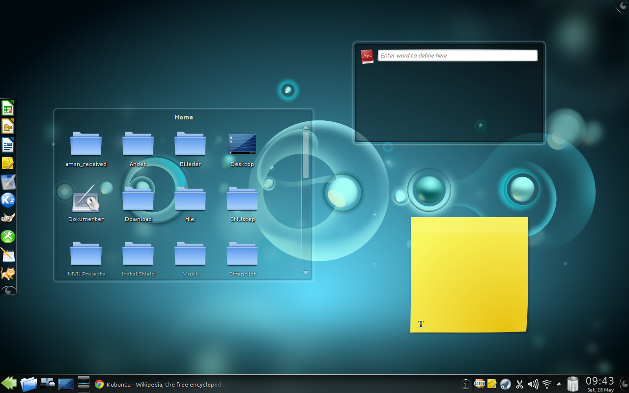 Kubuntu 11.04 desktop running transparent panels, post it, dictionary and folder view.